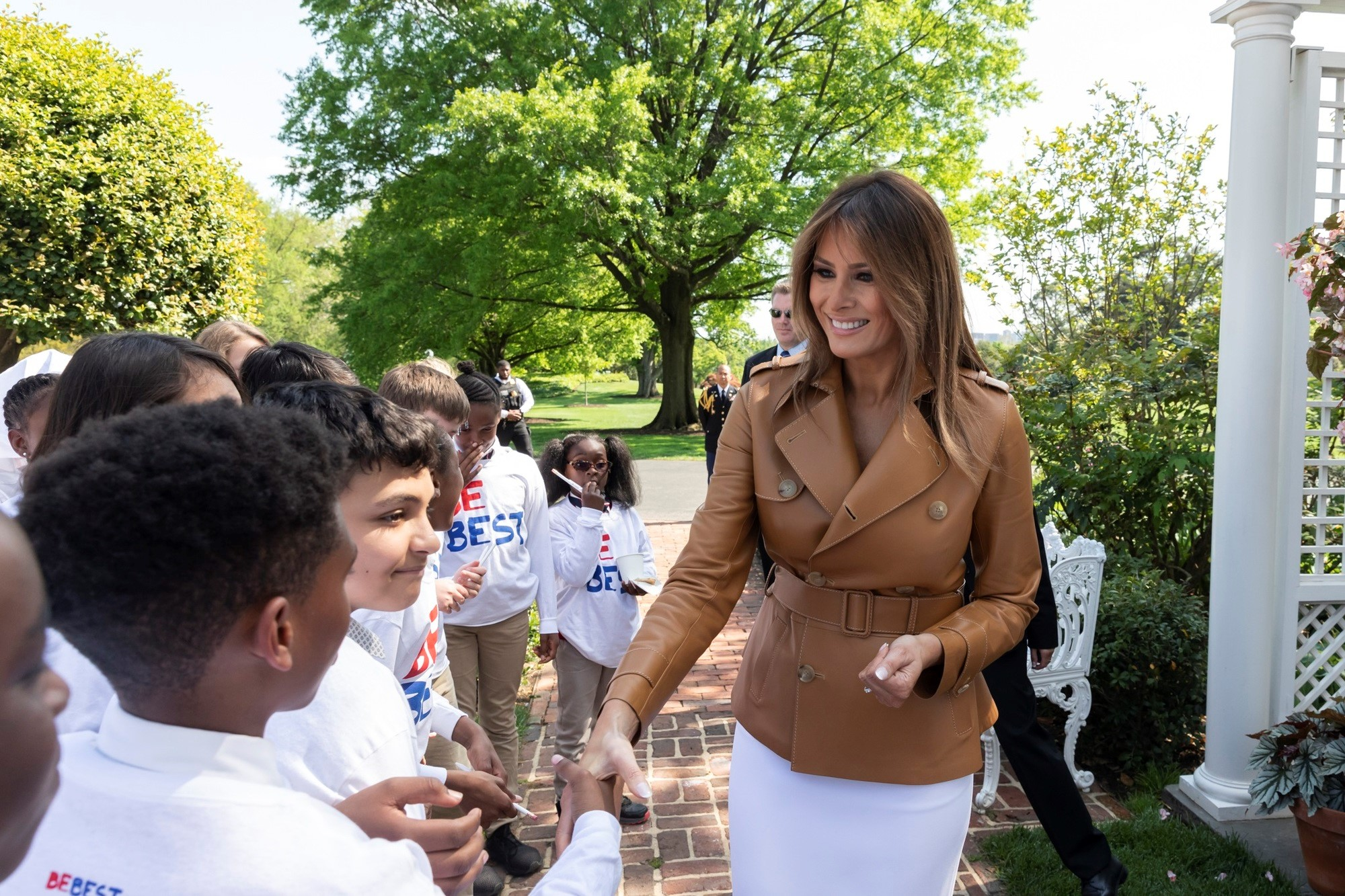 First Lady Melania Trump meets with students in the Kennedy Garden at the White House at her Be Best policy initiative rollout Monday, May 7, 2018, in Washington, D.C.